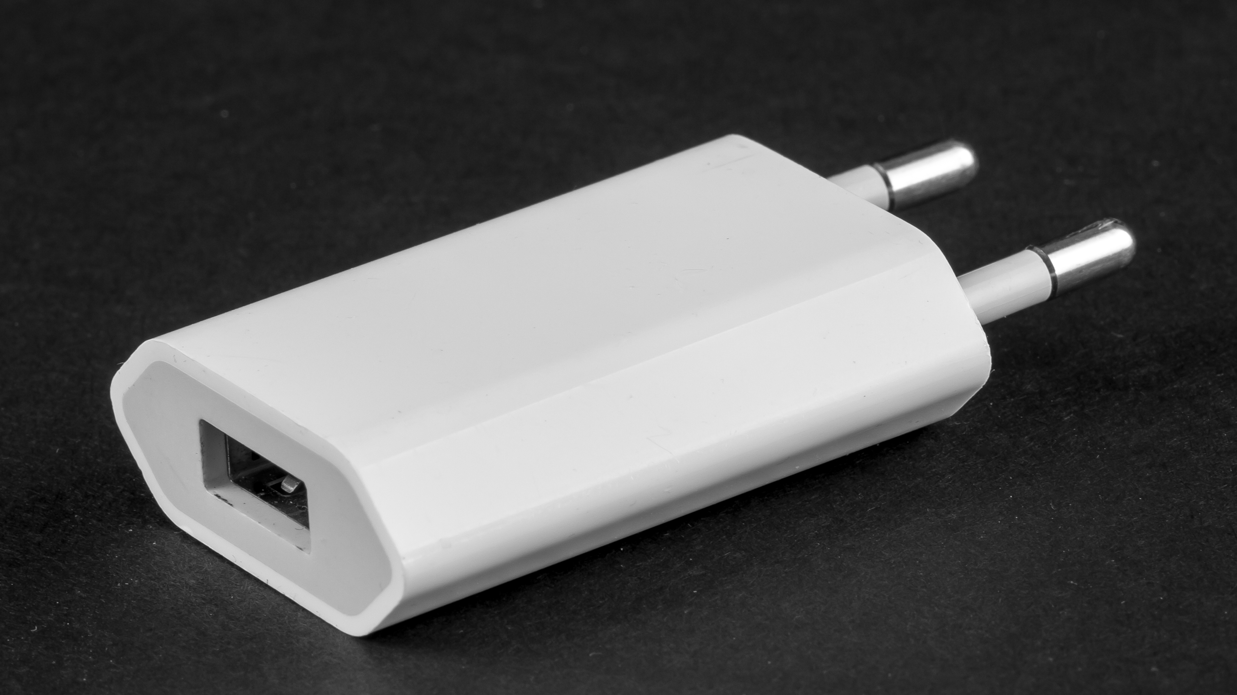 Plug-in power adapter European USB Model A1300 for Apple, delivered with iPhone 3GS, iPhone 4 und iPhone 4s between October 2009 and September 2012. Manufactured by Flextronics Product recall in 2014 by Apple: "Apple has determined that, in rare cases, the Apple 5W European USB power adapter may overheat and pose a safety risk."